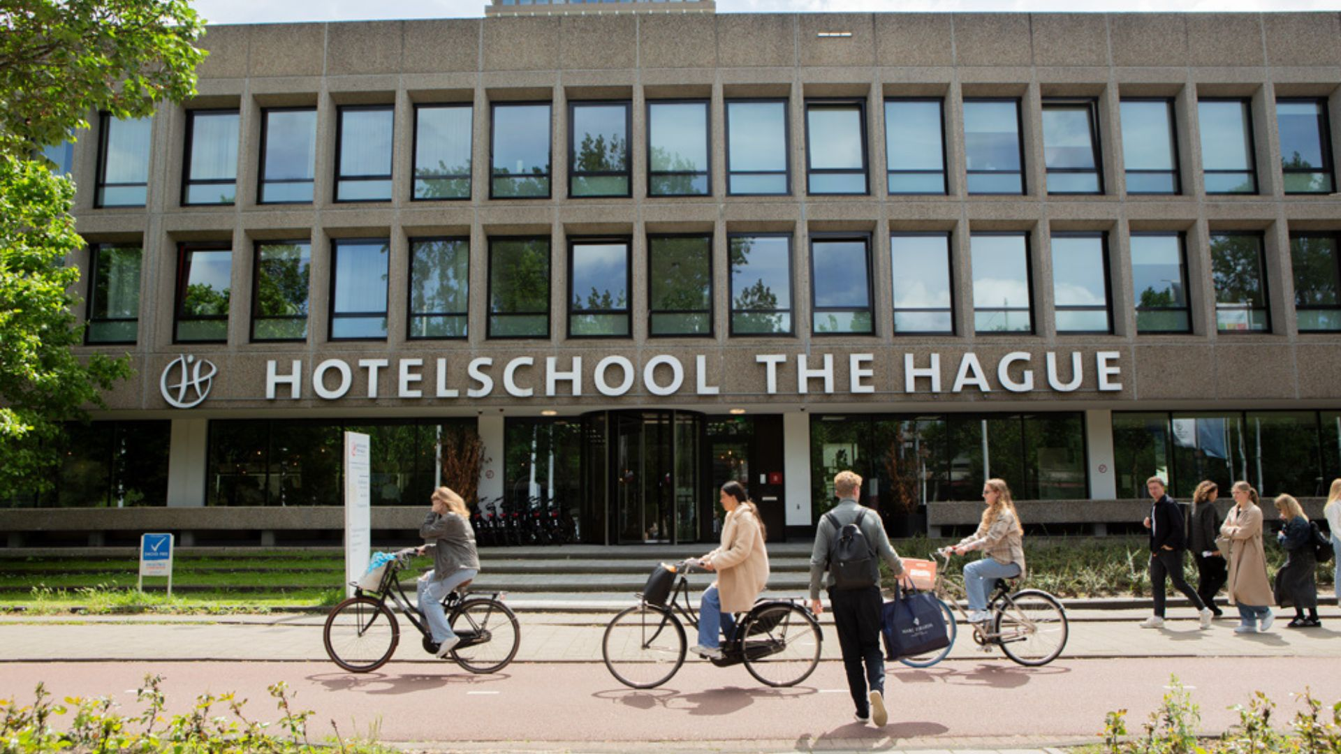 Main Entrance Amsterdam Campus Hotelschool The Hague